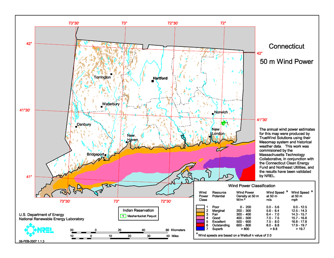 Average annual wind power distribution for Connecticut, 50m height above ground, also showing location of existing electrical transmission lines